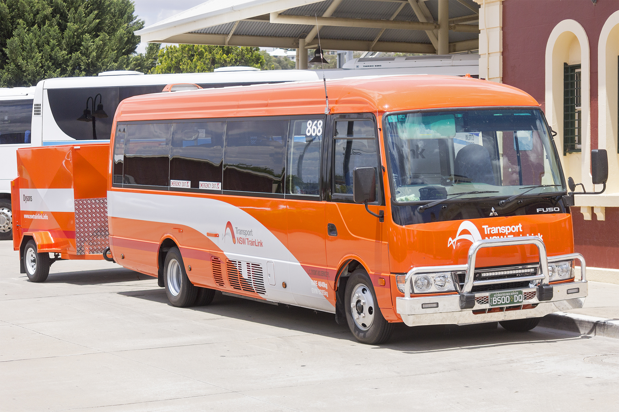 NSW TrainLink Wagga Wagga to Tumbarumba coach service operated by Dysons (BS00 DQ), in NSW TrainLink livery, Fuso Rosa at Wagga Wagga Railway Station.